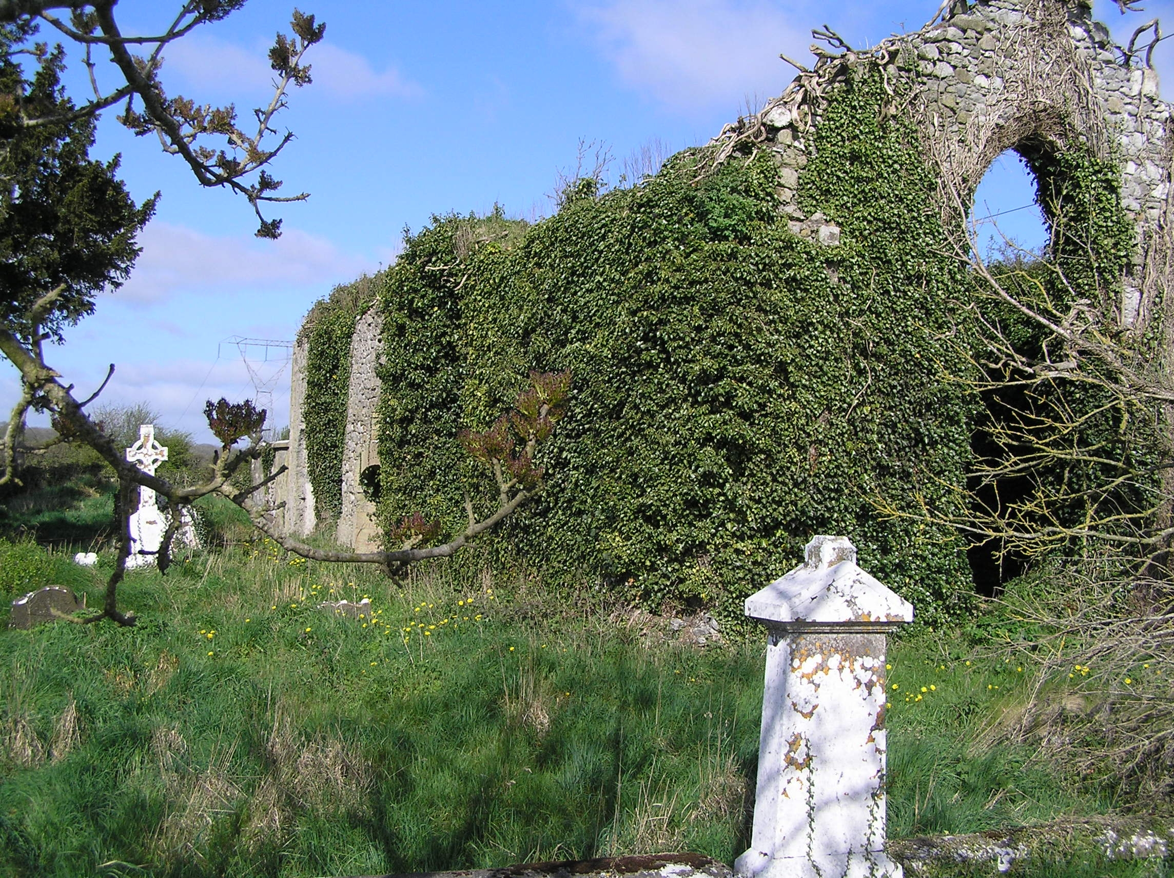 Ruined church at Newtownlow, near Kilbeggan